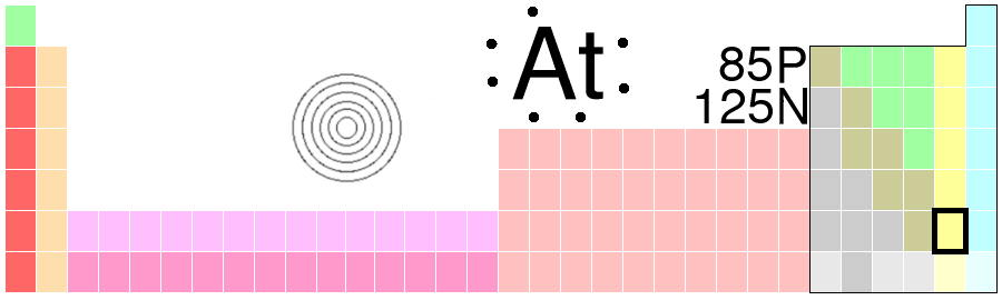 Image by Daniel Mayer or GreatPatton and released under terms of the GNU FDL